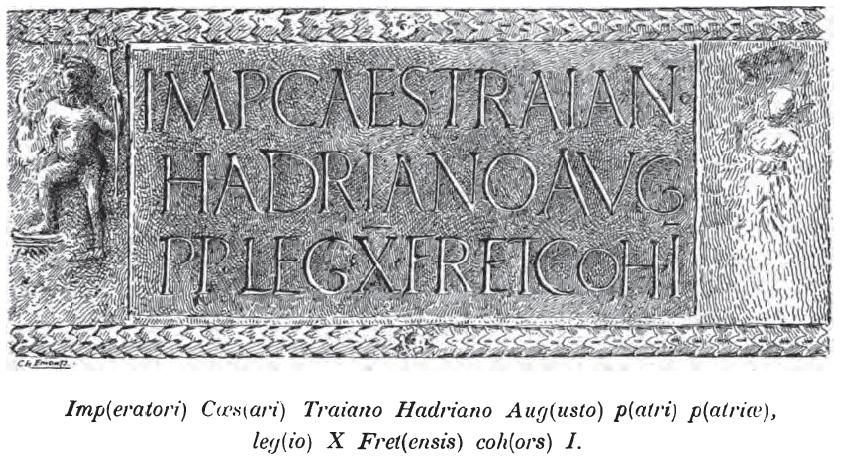 Dedication Inscription of the Cohors I of the Legio X Fretensis to Hadrianus Ceaser From Beit Shean CIL III 13589 = CIL III 14155.14 Picture in: Gaalyahu Cornfled, Daniel to Paul: Jews In Conflict with Graeco-Roman Civilization, (New York: The Macmillan Company, 1962), p.347 Now on Louvre Museum